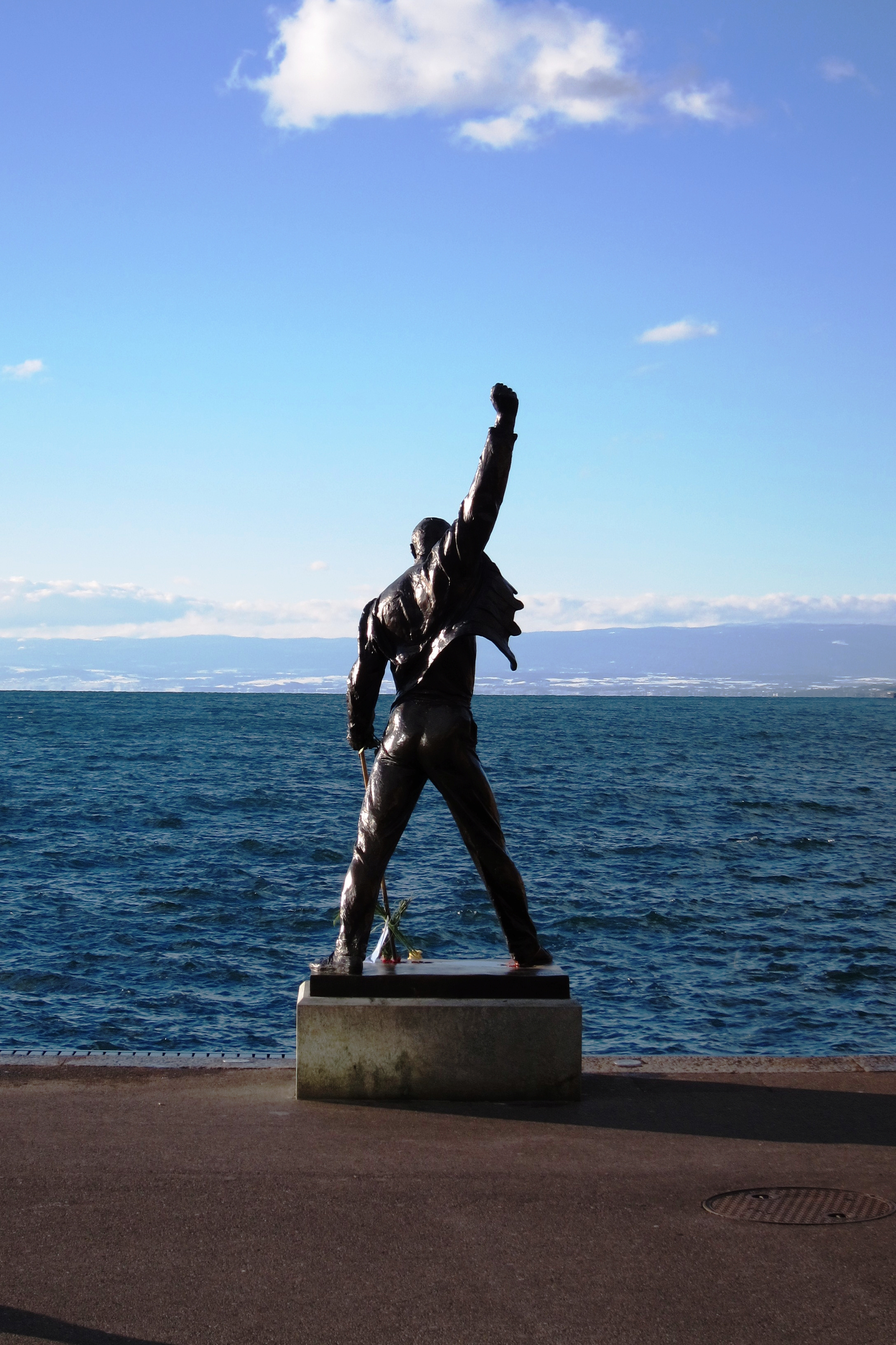 Leman Lake - Freddie Mercury